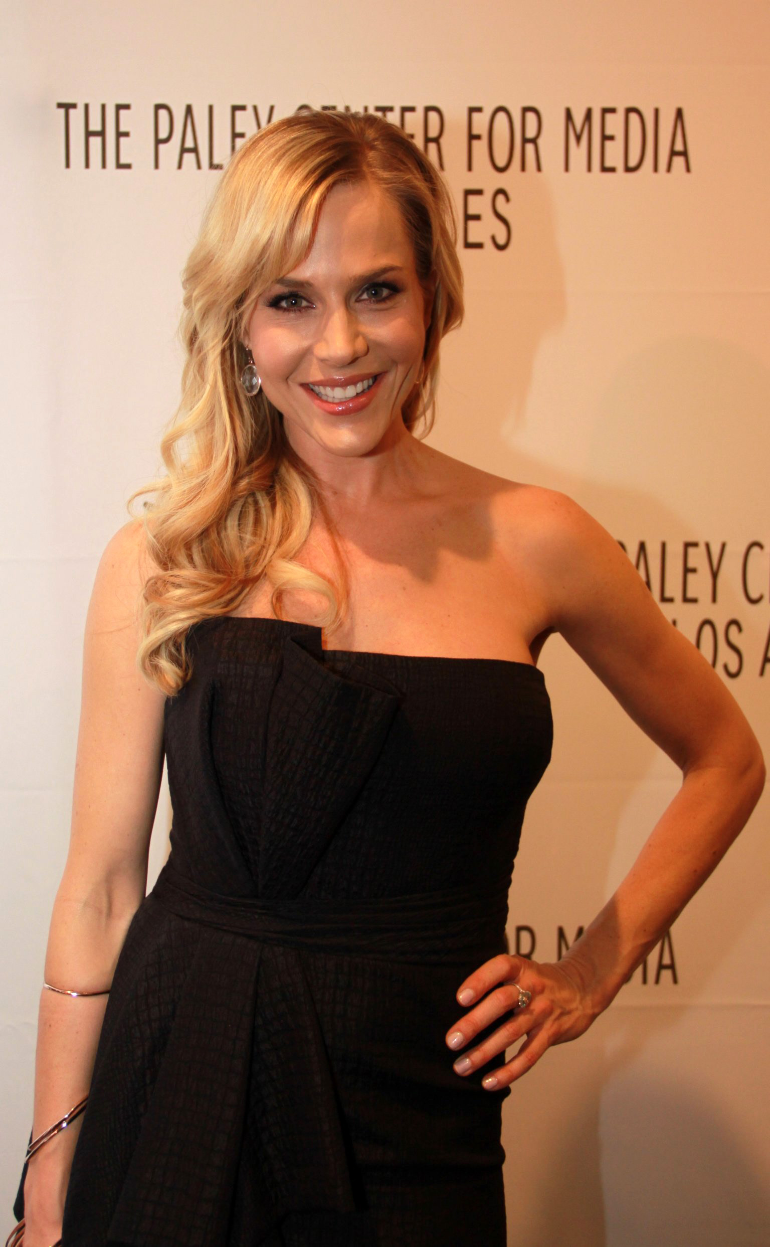 Julie Benz at PaleyFest2010's "Dexter" night at the Saban Theatre on March 4th, 2010.